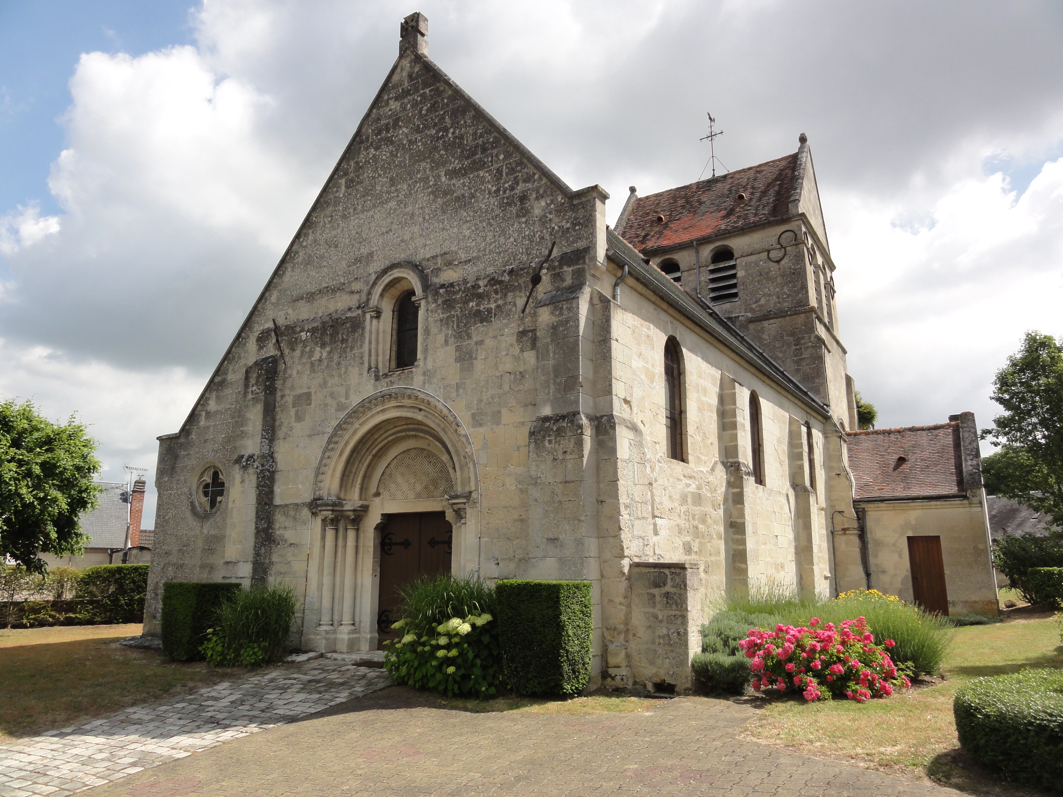 Mercin-et-Vaux (Aisne) église Saint-Léger